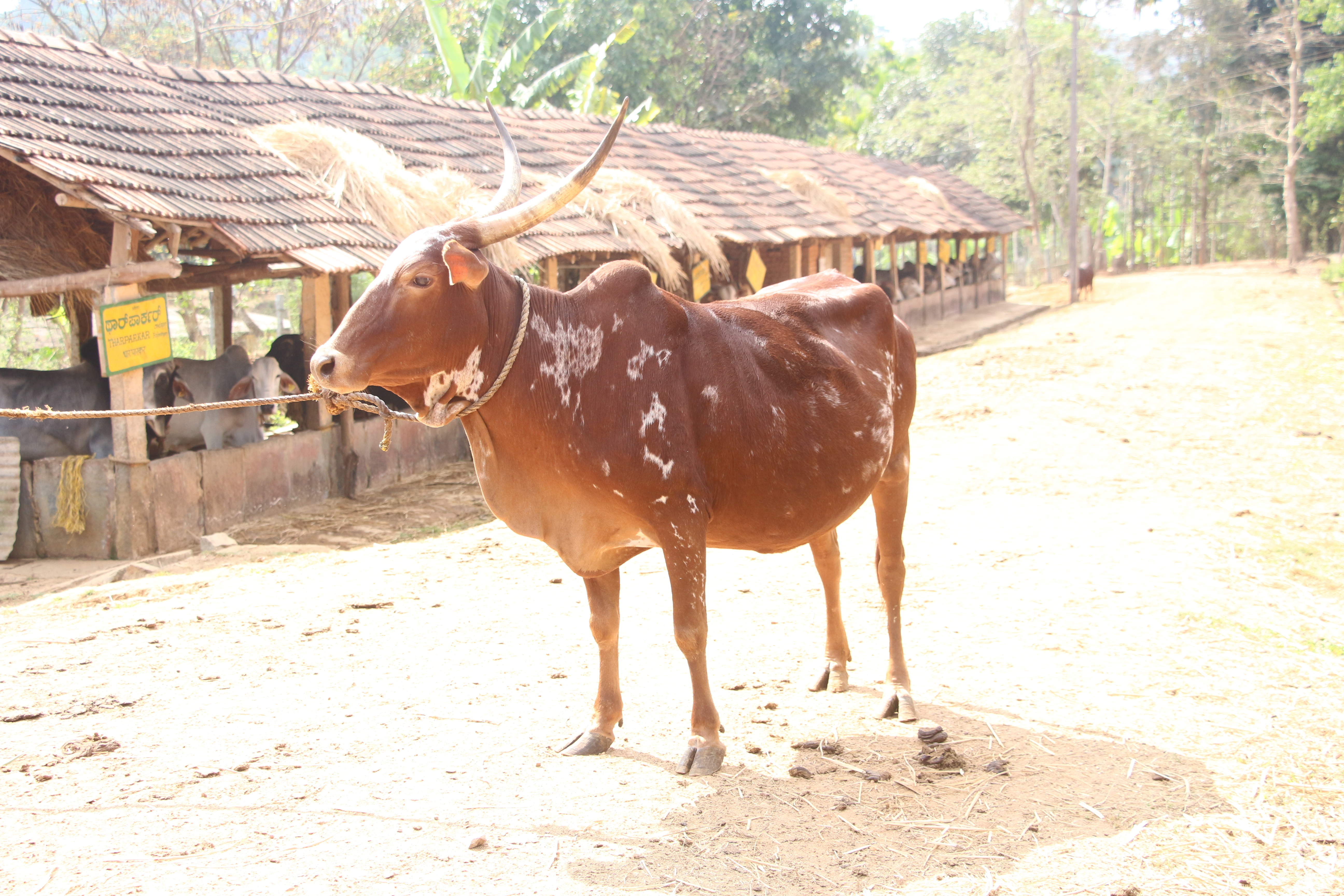 Indian cow breed Baragur ಕನ್ನಡ: ಭಾರತೀಯ ಗೋತಳಿ ಬರಗೂರು